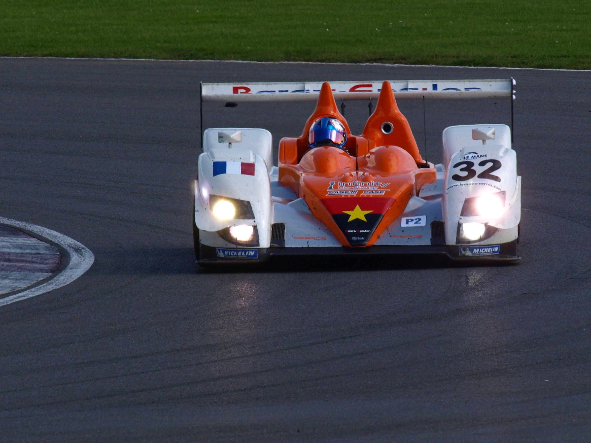 Barazi-Epsilon's Zytek 07S/2 at the 2008 1000km of Silverstone.